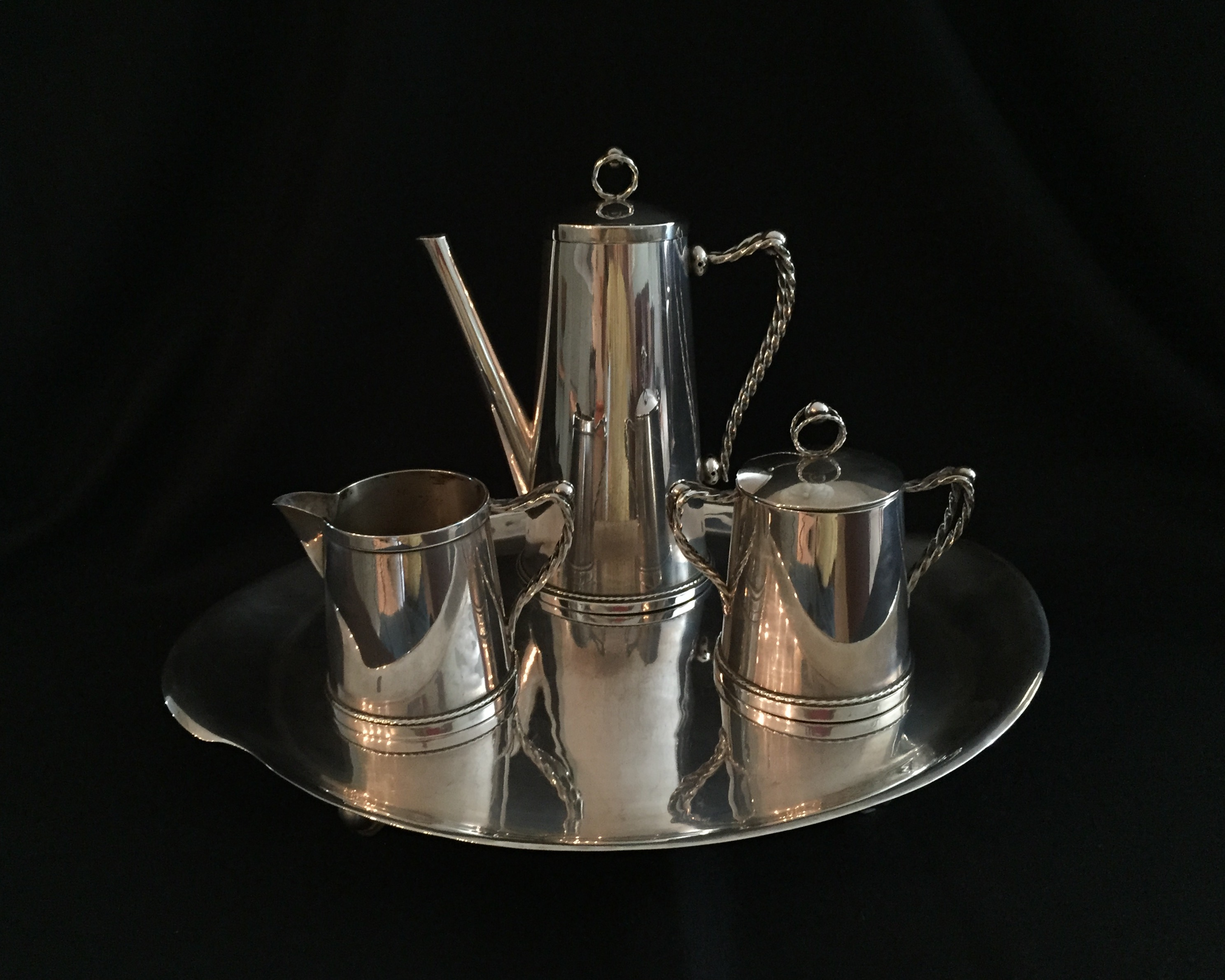 Alfredo Sciarrotta silver tea set